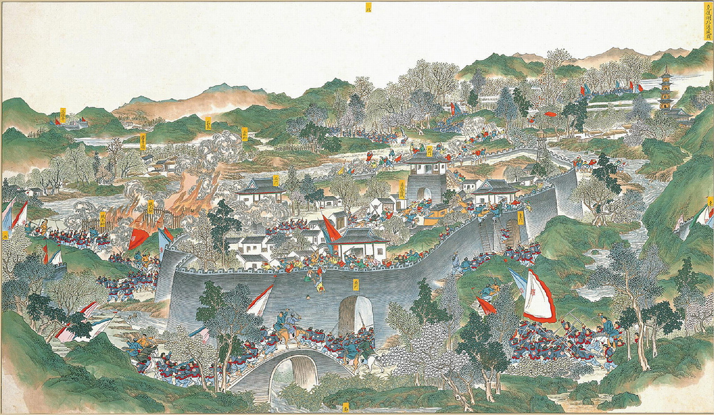 A scene of the Taiping Rebellion, 1850-1864